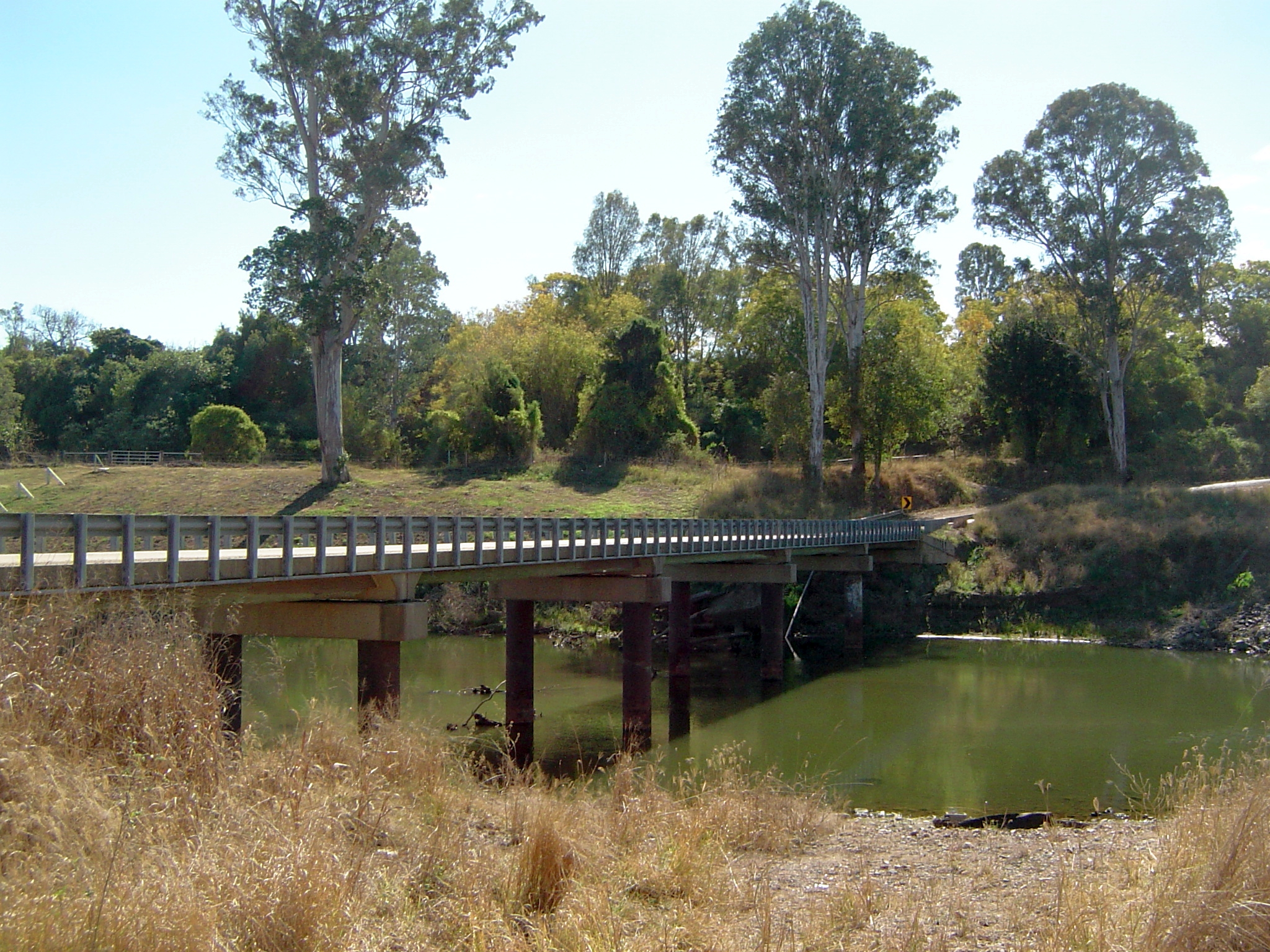 Photo of Summerville Road East crossing at Borallon, Somerset Region, Queensland, Australia.